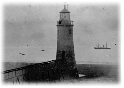 Spurn Low lighthouse, built 1852 sited at mouth of Humber